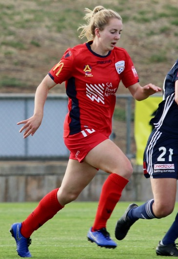 Rnd9AdeVic - HolmesMastrantonio